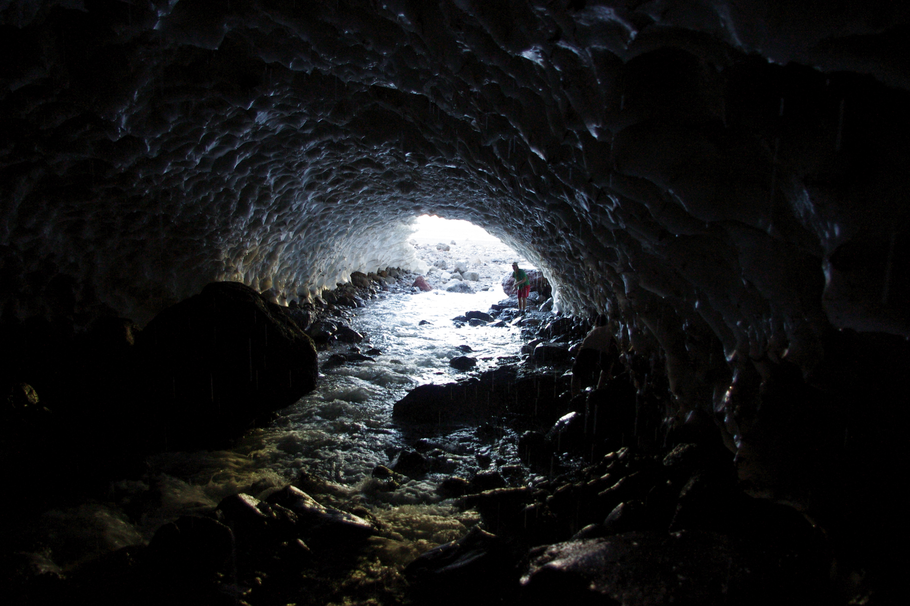 Ice cavern